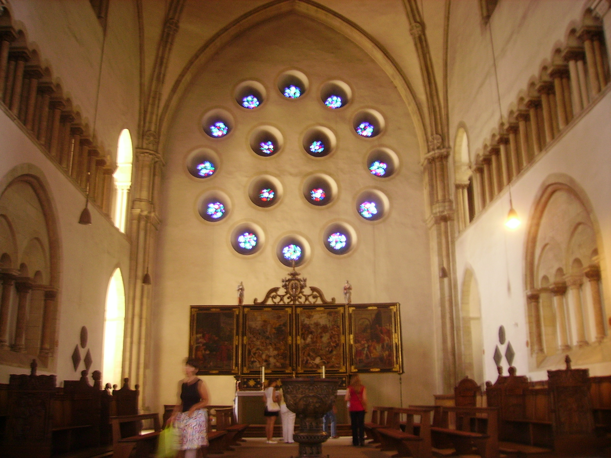 Western Choir the catholic Cathedral/Minster St. Paulus, Münster